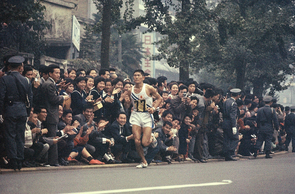 Kōkichi Tsuburaya at the 1964 Olympics